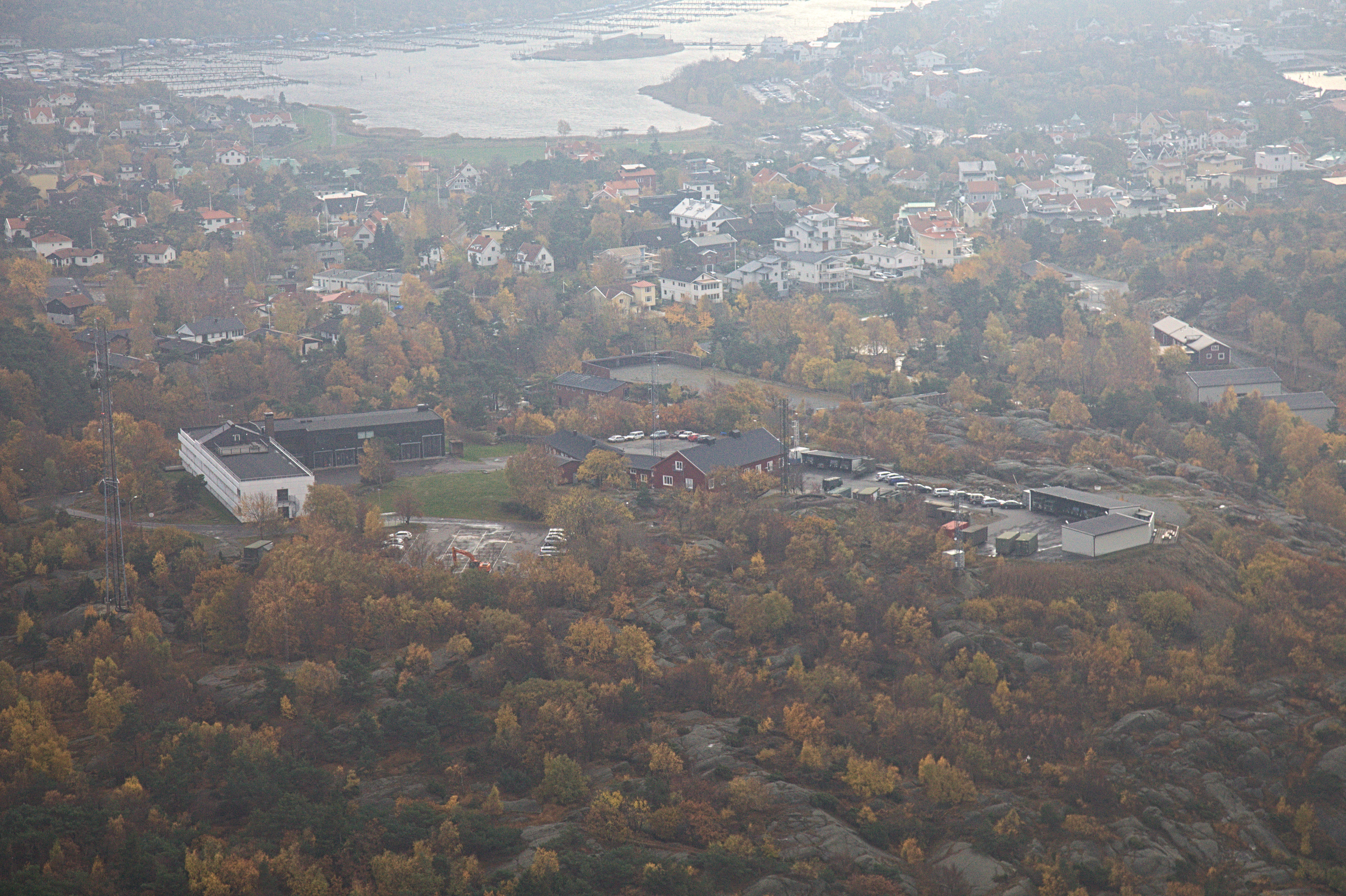 Photo taken on a helicopter over Gothenburg